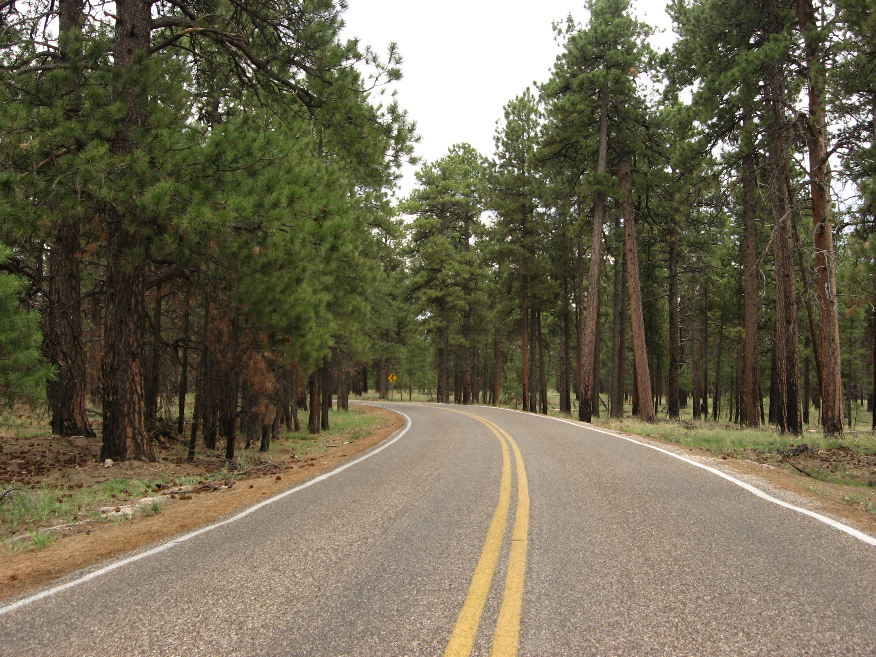 Pinus ponderosa forest. Near Cape Royal, Grand Canyon North Rim, Coconino Co., Arizona 36°8'47"N 111°56'09"W, 2400m altitude.